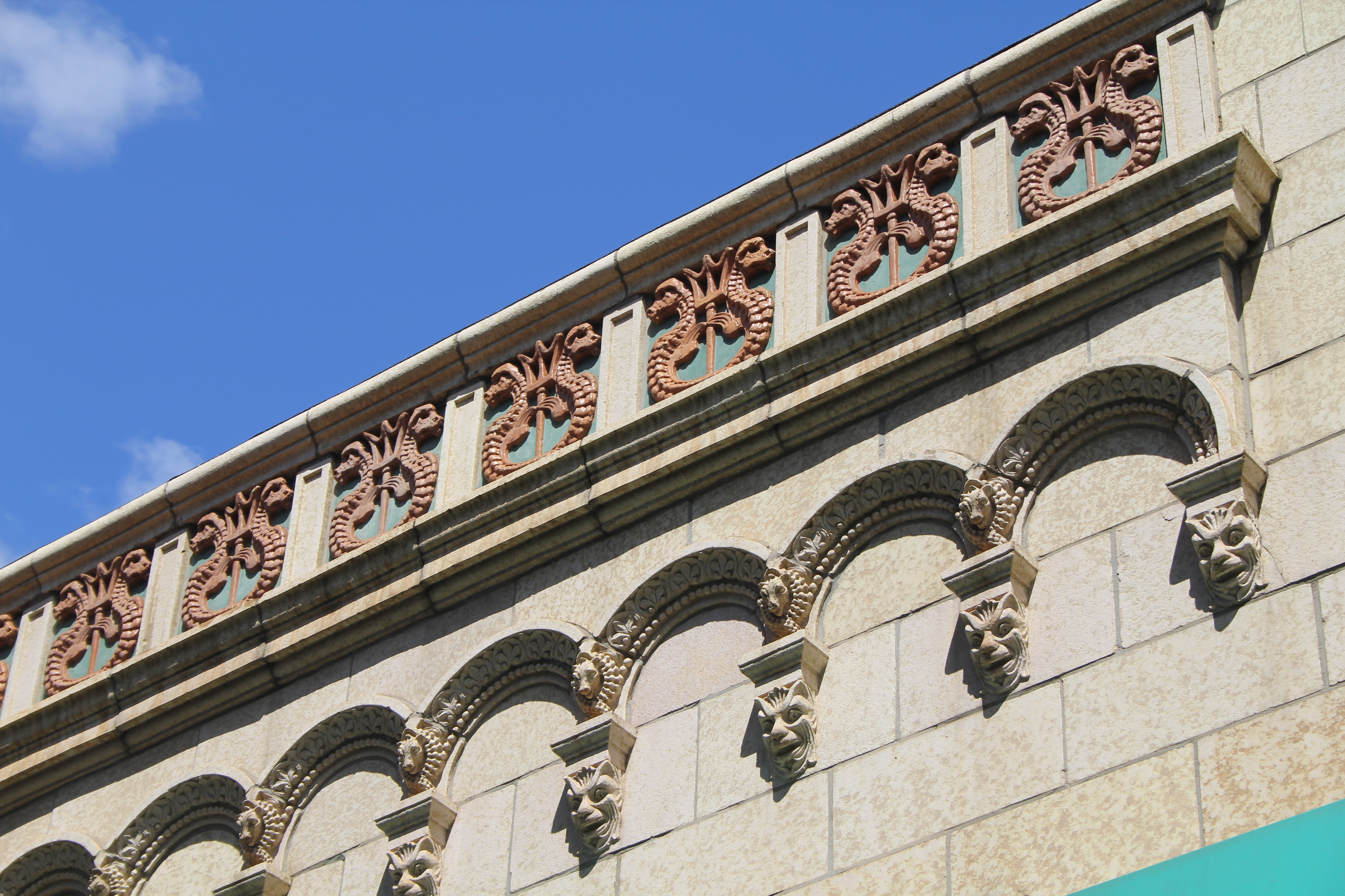 Former Childs Restaurant location at 6319 Roosevelt Avenue, Woodside, Queens, New York. Roof line with seahorse motif and other carvings.